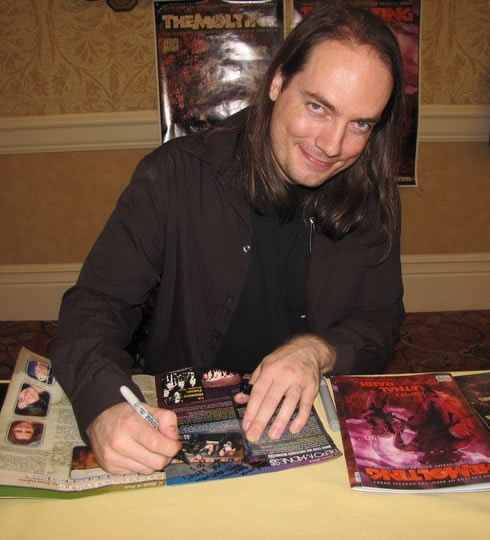 Terrance Zdunich at a comic book signing in 2010.